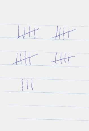 Paper with number 23 tallied by hand.